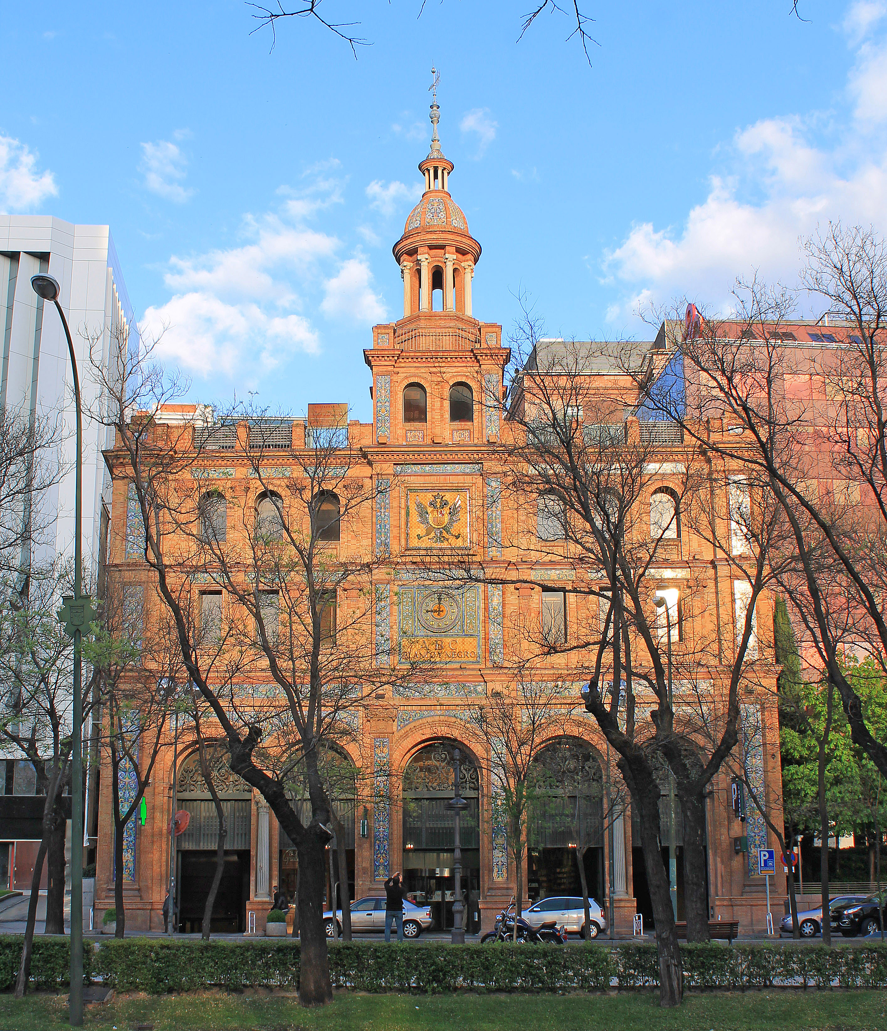 West façade of ABC Serrano building in Madrid (Spain).